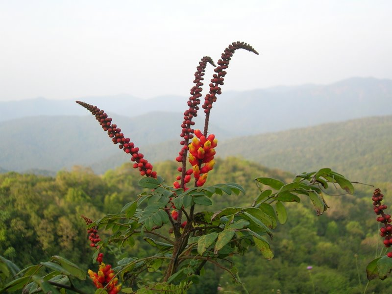 Moullava spicata flowers from Dandeli, India